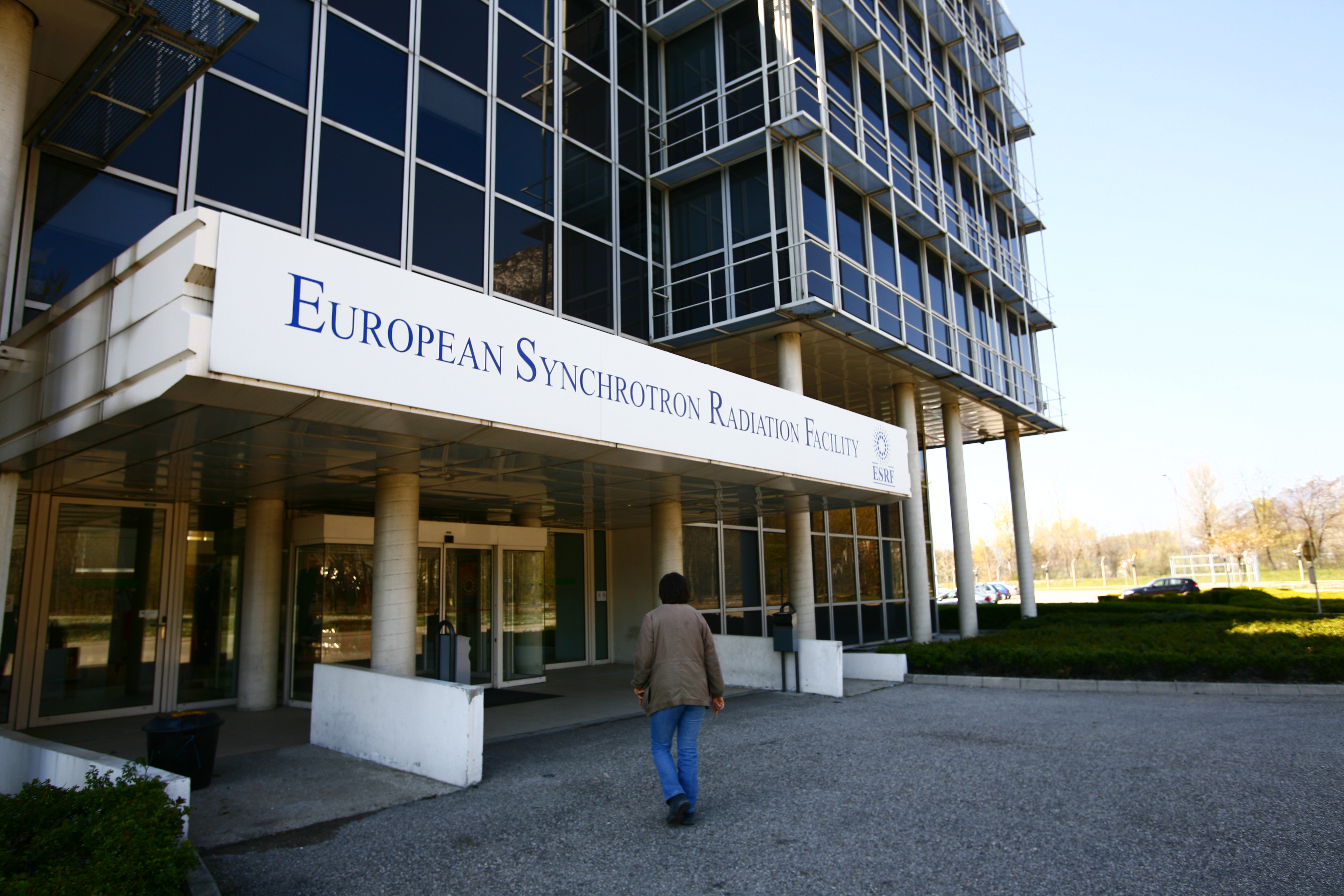 European Synchrotron Radiation Facility in Grenoble